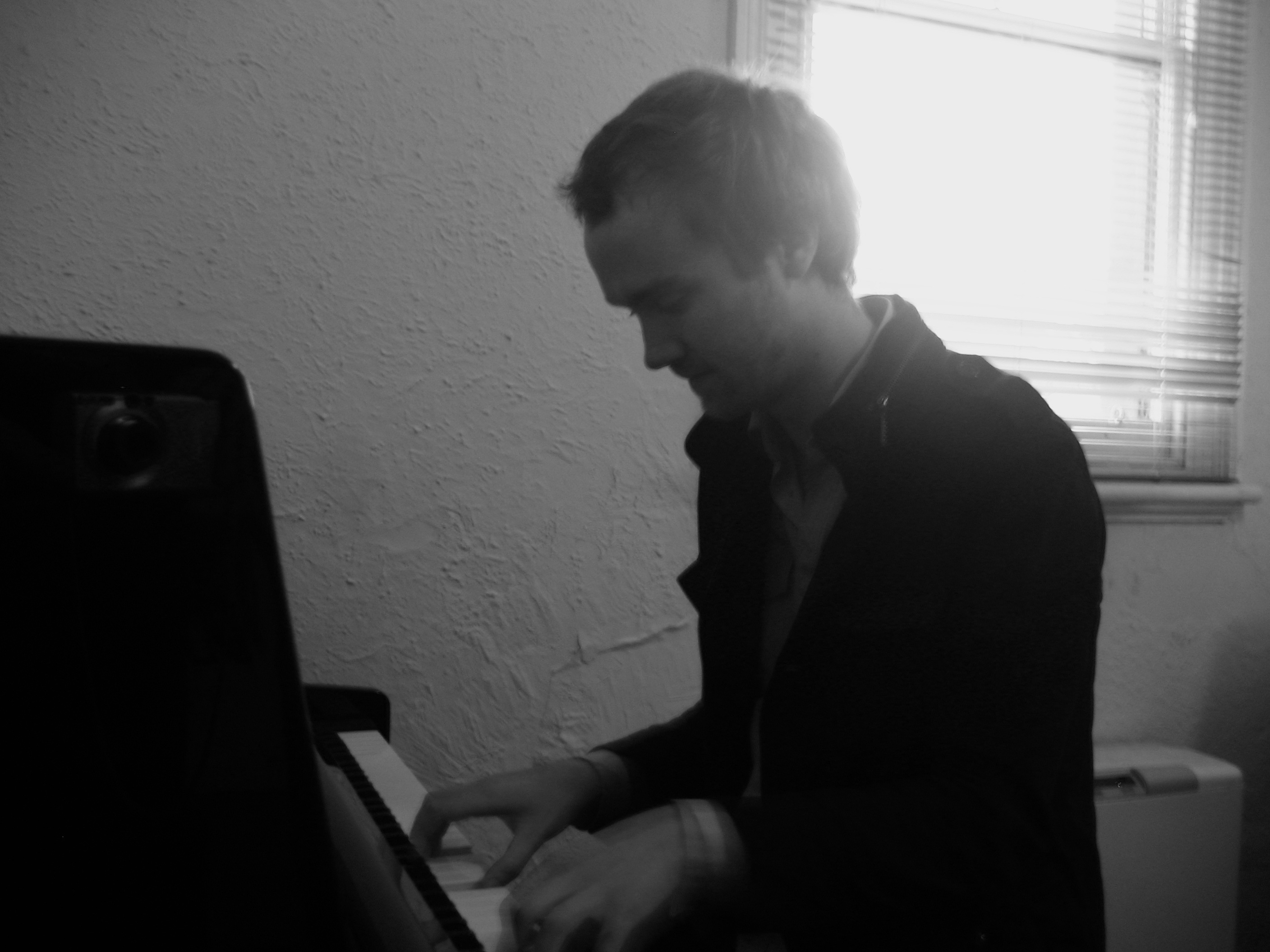 Finn Robertson